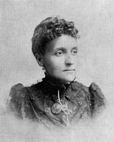 Martha "Mary" (née Harris) Mason McCurdy, African-American temperance advocate and suffragette